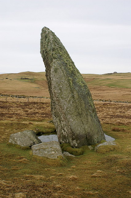 Standing stone at Lund Side-on, to show how narrow the stone is compared to its width.